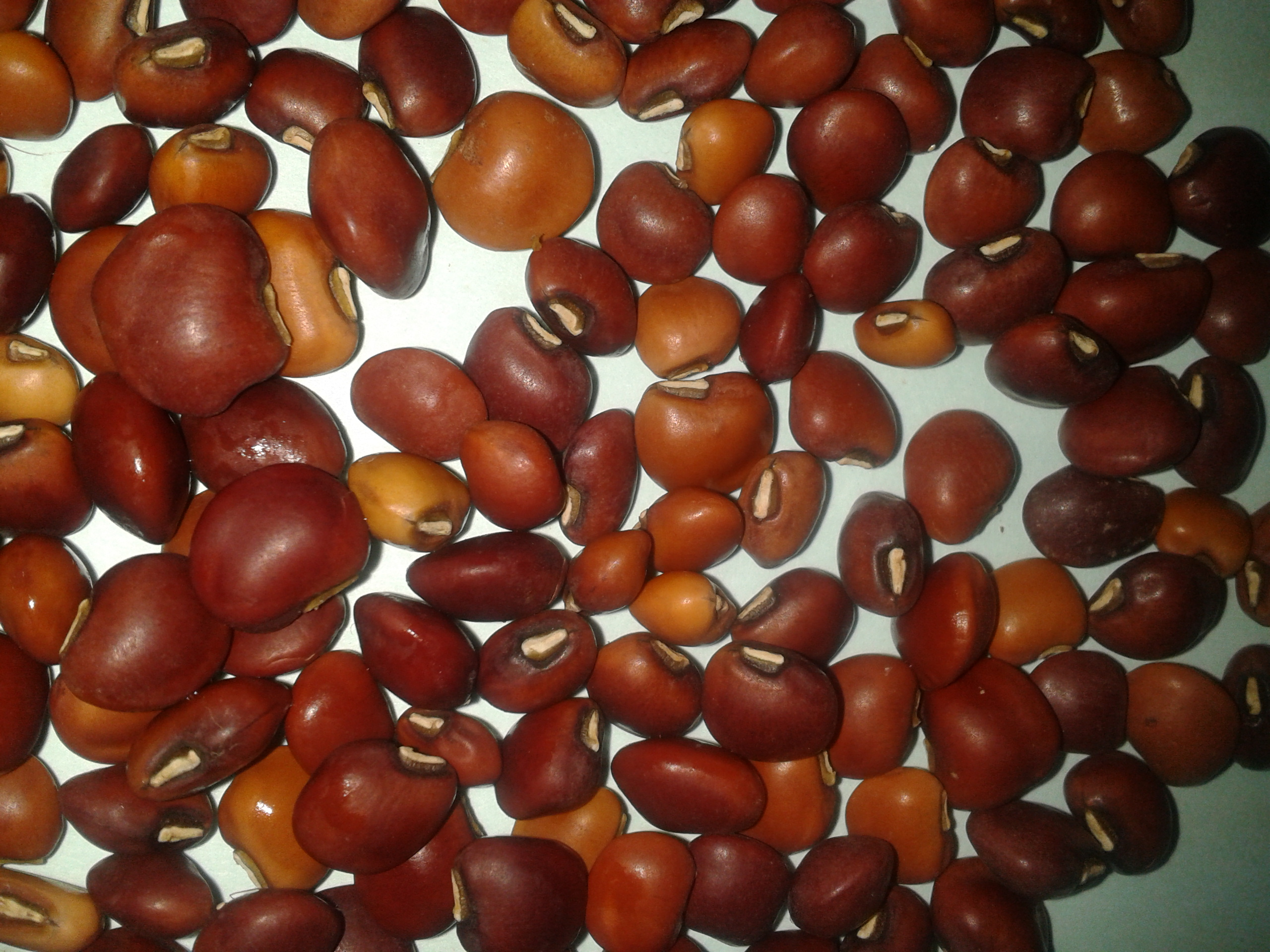 Botanical name - Vigna unguiculata Common name – Cowpea Provides source of proteins and calories, as well as minerals and vitamins; Exhibits antioxidative properties ; Anti-Bleeding ; Antibacterial . S.Soundarapandian (talk) 16:03, 28 November 2015 (UTC)